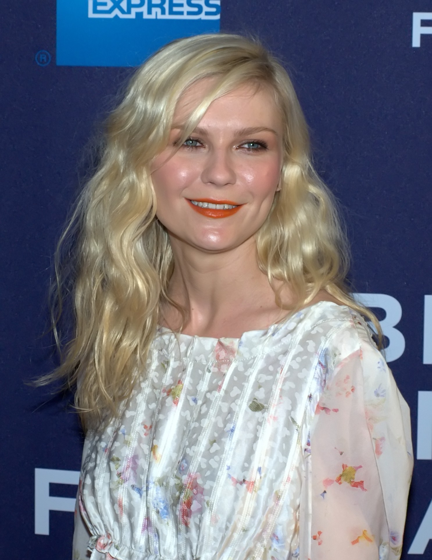 Kirsten Dunst at Tribeca Film Festival 2010